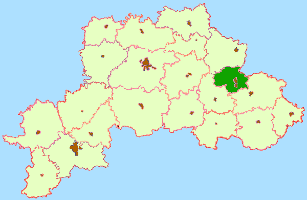 Mogilev Region map by Al Silonov